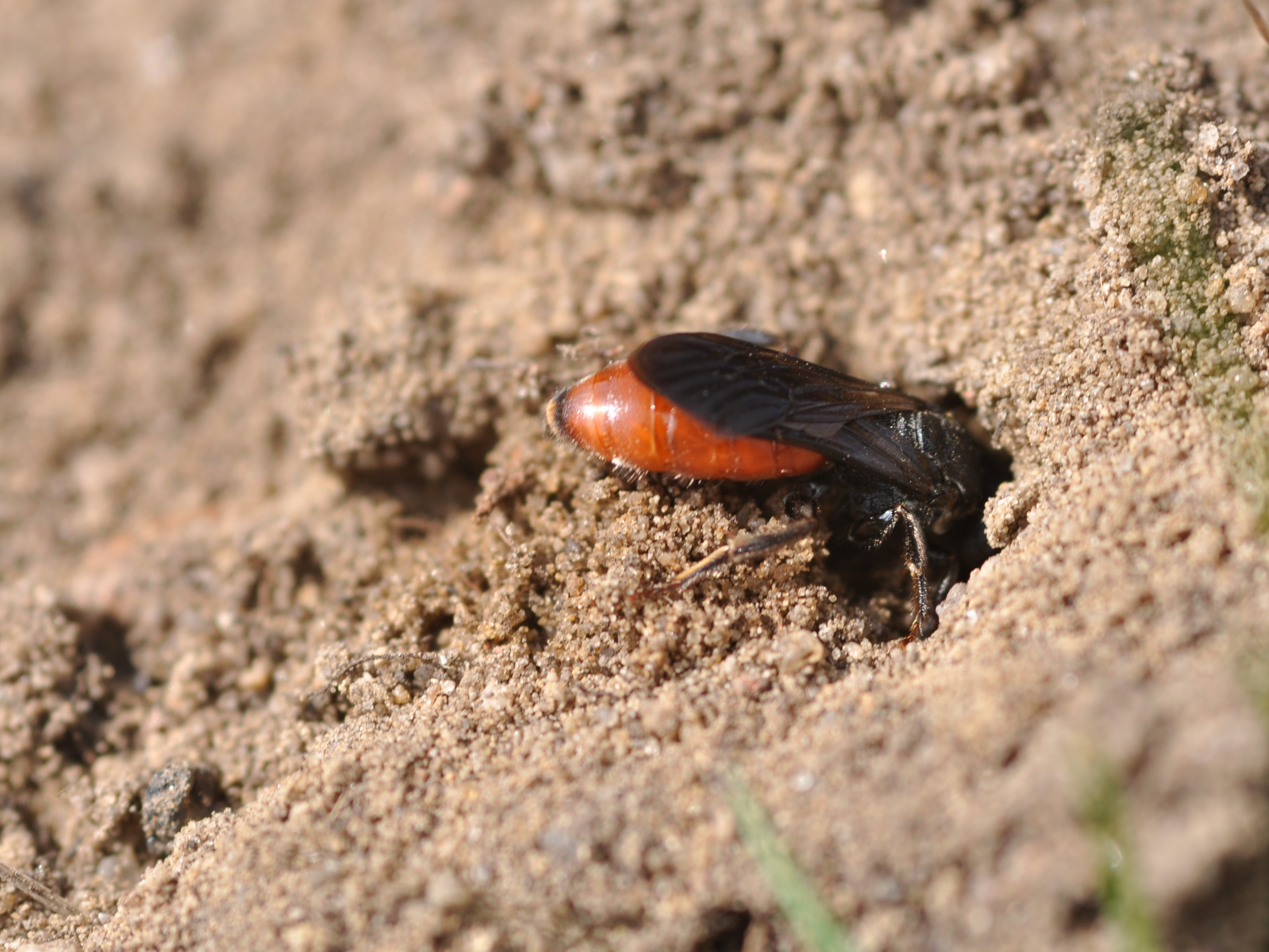 Bee Sphecodes albilabris finally found an unattended nest at a Andrena vaga colony in Bahrenfeld, Hamburg.